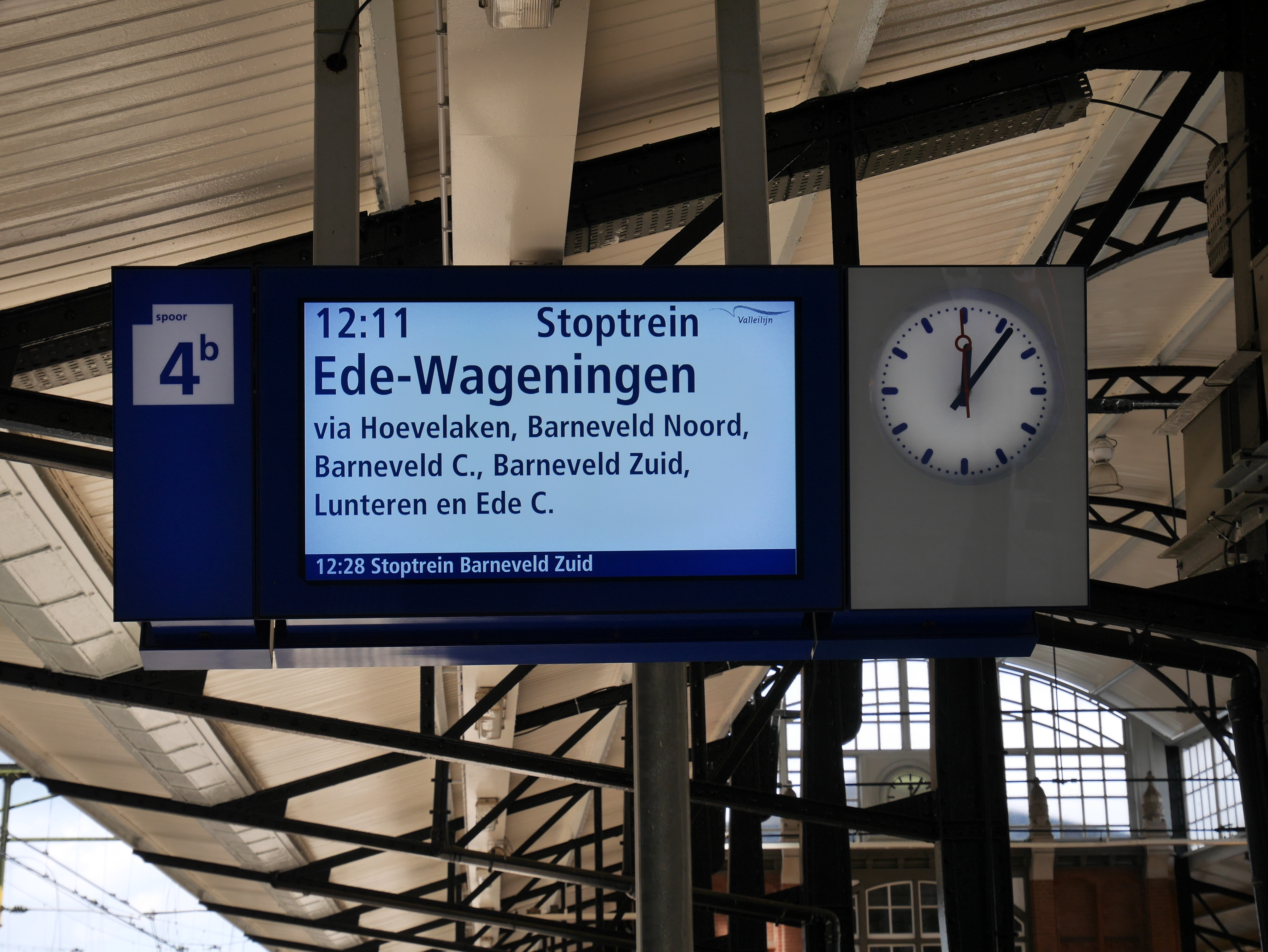 LCD display at Amersfoort for the stoptrein to Ede-Wageningen.